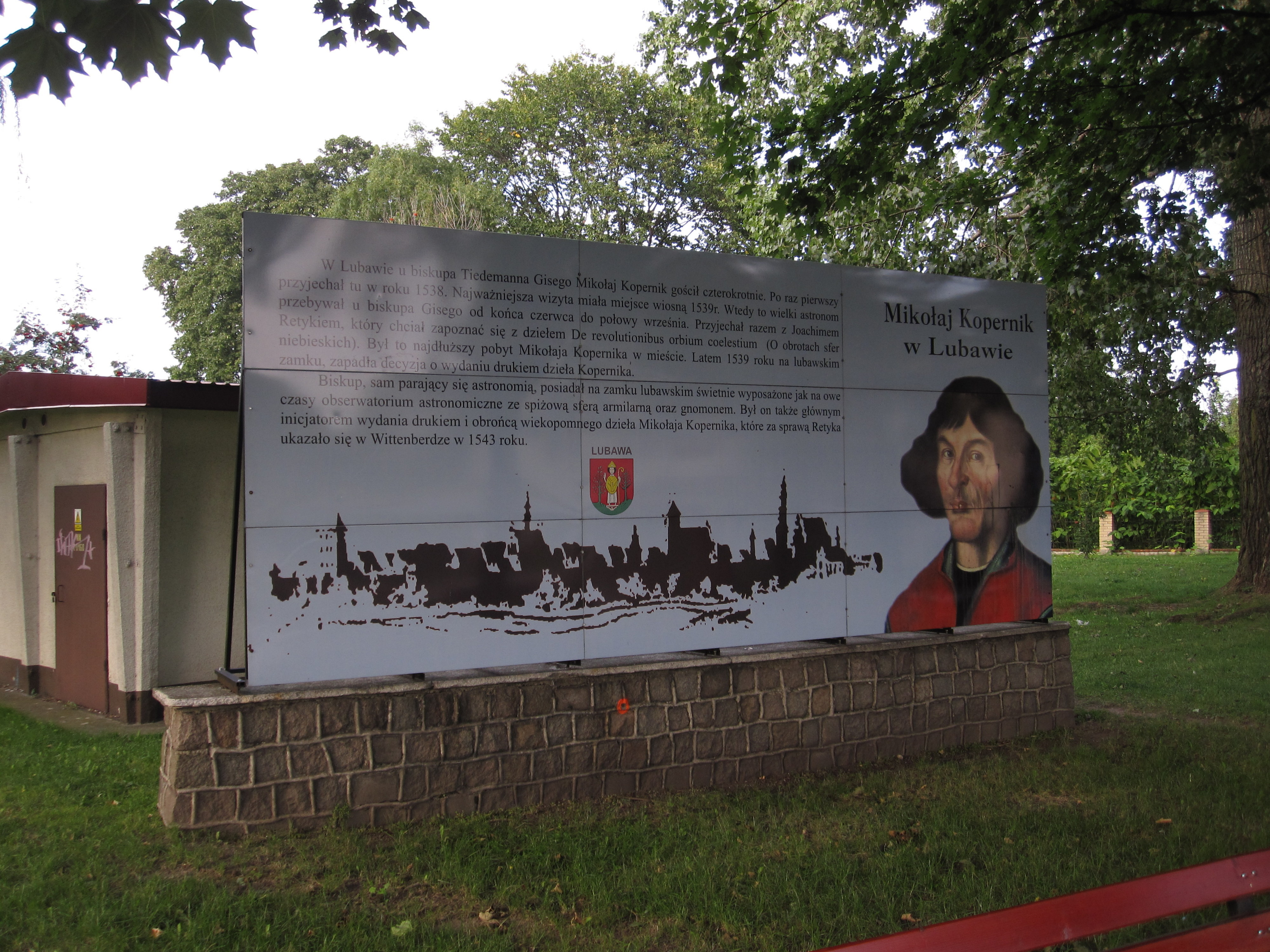 Lubawa - Nicolaus Copernicus in Lubawa - board